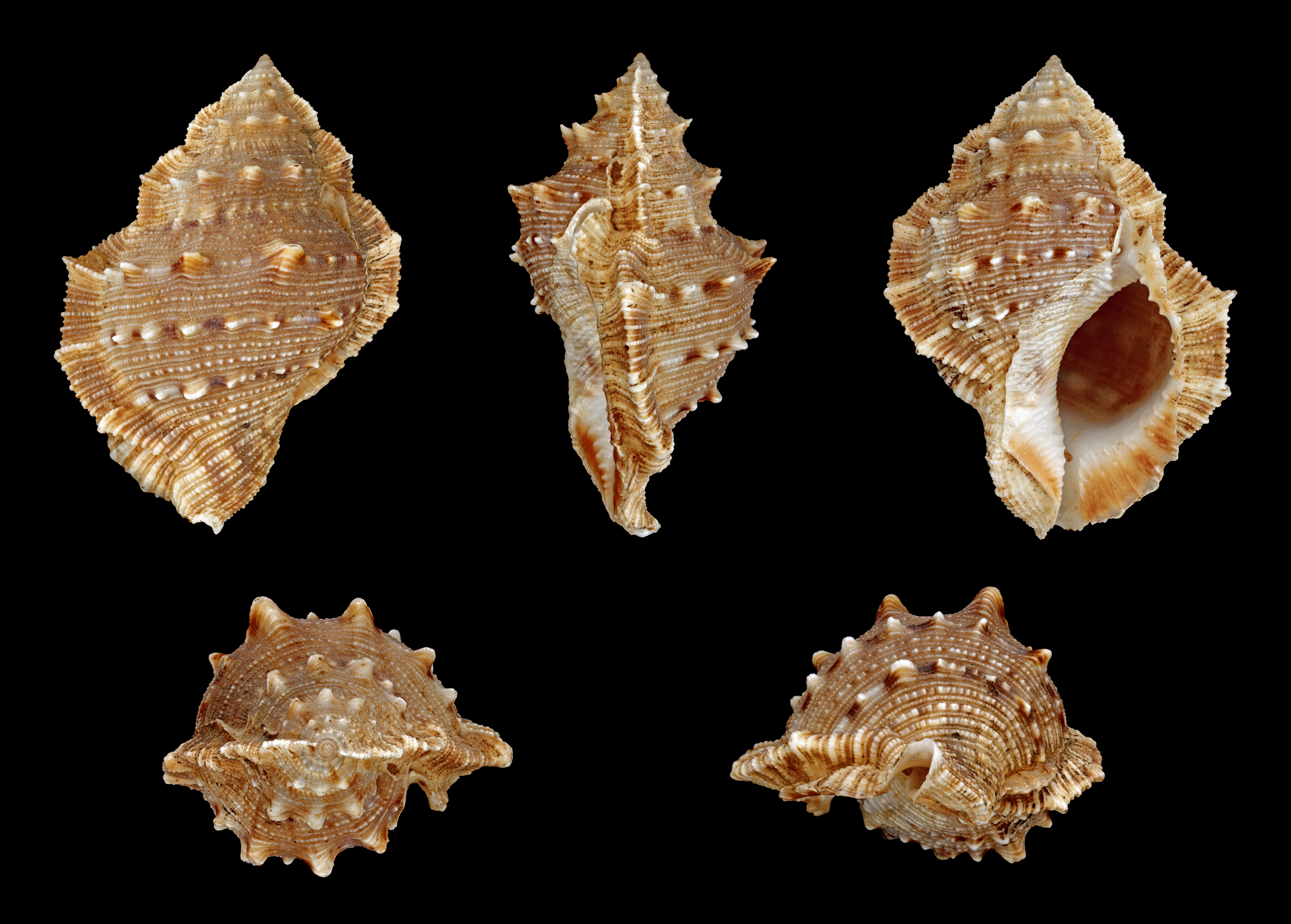 Frilled Frog Shell; Length 6.5 cm; Originating from Sri Lanka; Shell of own collection, therefore not geocoded. Dorsal, lateral (right side), ventral, back, and front view.